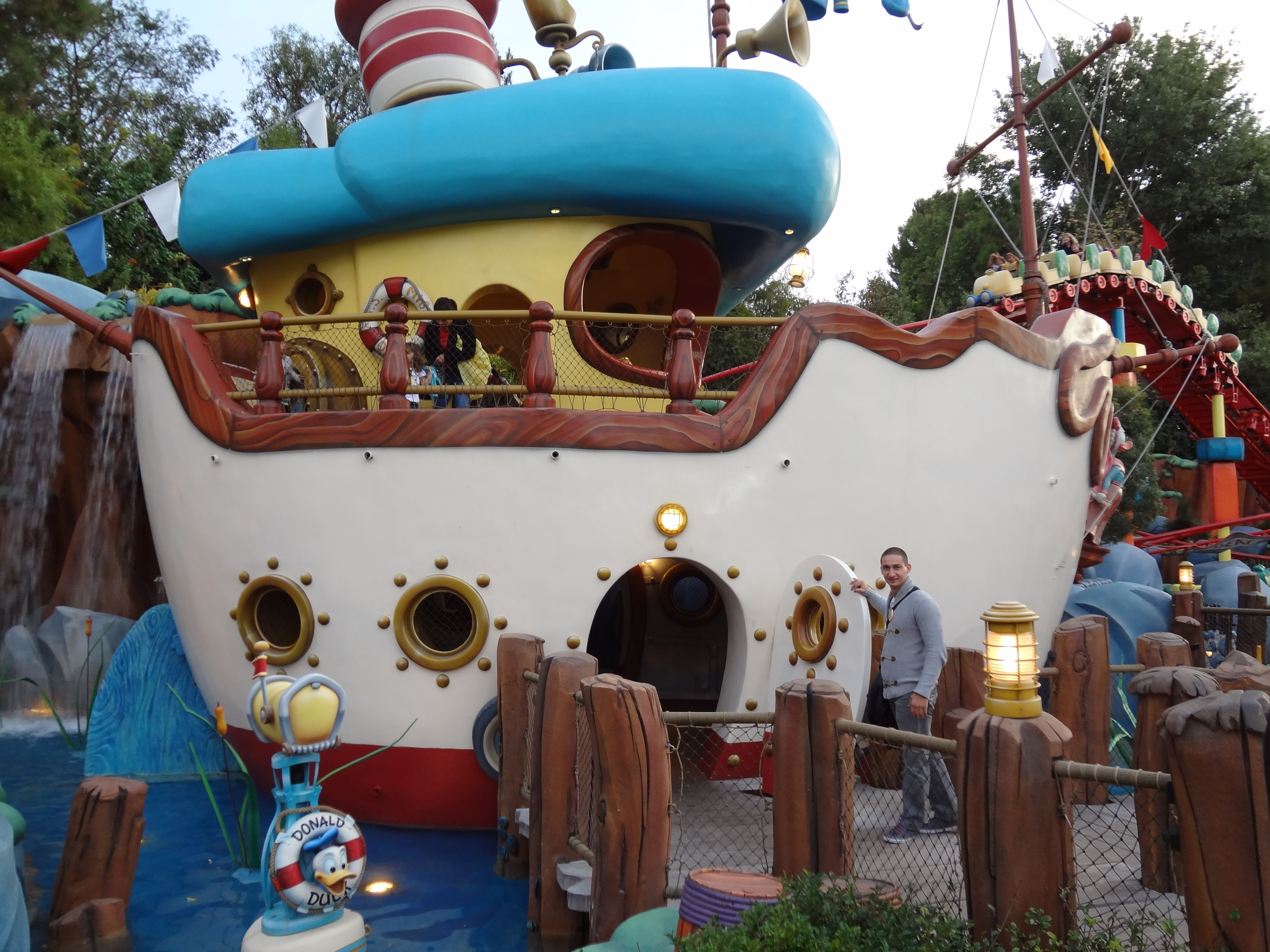 Visit my travel blog at Xcellent Trip for great travel tips about some of the most popular world destinations. This is picture from Disneyland park in Anaheim, Los Angeles (LA), California (CA) United States of America (USA).